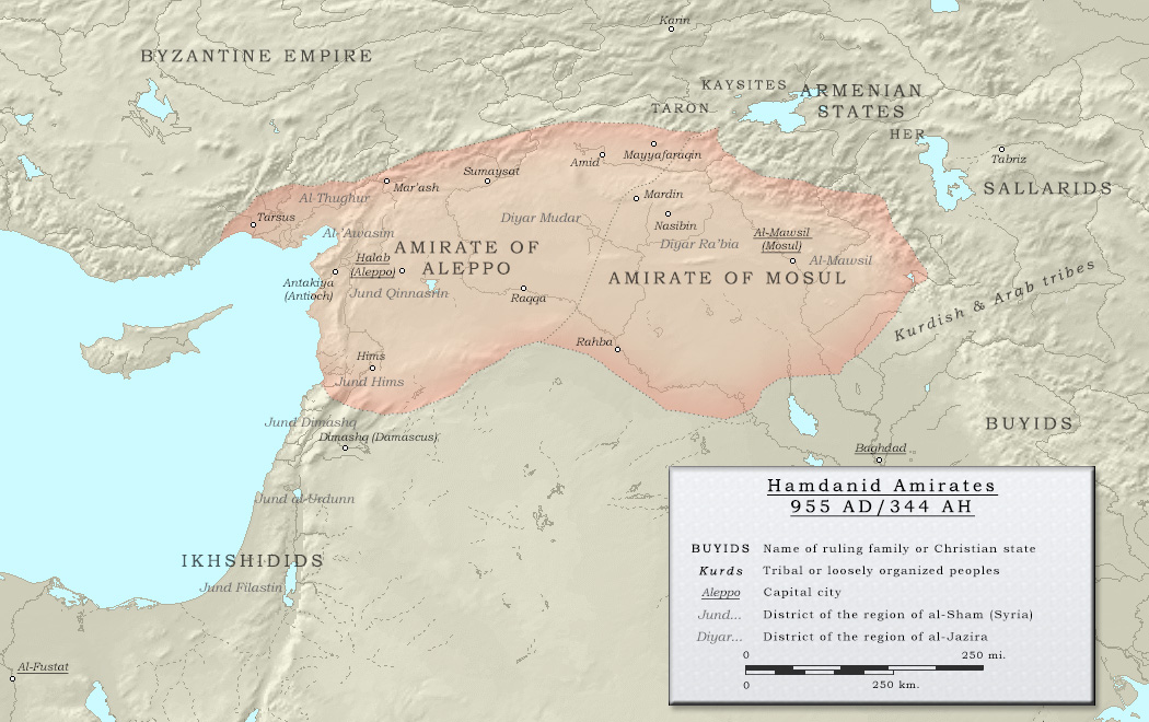 Map of the Hamdanid amirates of Mosul and Aleppo in 955 AD. Primary references: Bianquis, Thierry (1998). "Autonomous Egypt from Ibn ?ulun to Kafur, 868–969". In Petry, Carl F. Cambridge History of Egypt, Volume One: Islamic Egypt, 640–1517. Cambridge: Cambridge University Press. ISBN 0-521-47137-0. pp. 113-15 (on the Hamdanid-Ikhshidid border) The Encyclopaedia of Islam. New Ed. 12 vols. with supplement and indices. Leiden: E.J. Brill, 1960-2005. See the articles on the various localities and dynasties listed on the maps, as well as those of the Hamdanid dynasts of the tenth century AD. Miskawaihi. The Eclipse of the Abbasid Caliphate: the Concluding Portion of the Experiences of the Nations, Vol. II. Trans. & ed. H. F. Amedroz and D. S. Margoliouth. London, 1921. passim (English-translated annals covering the period featured)